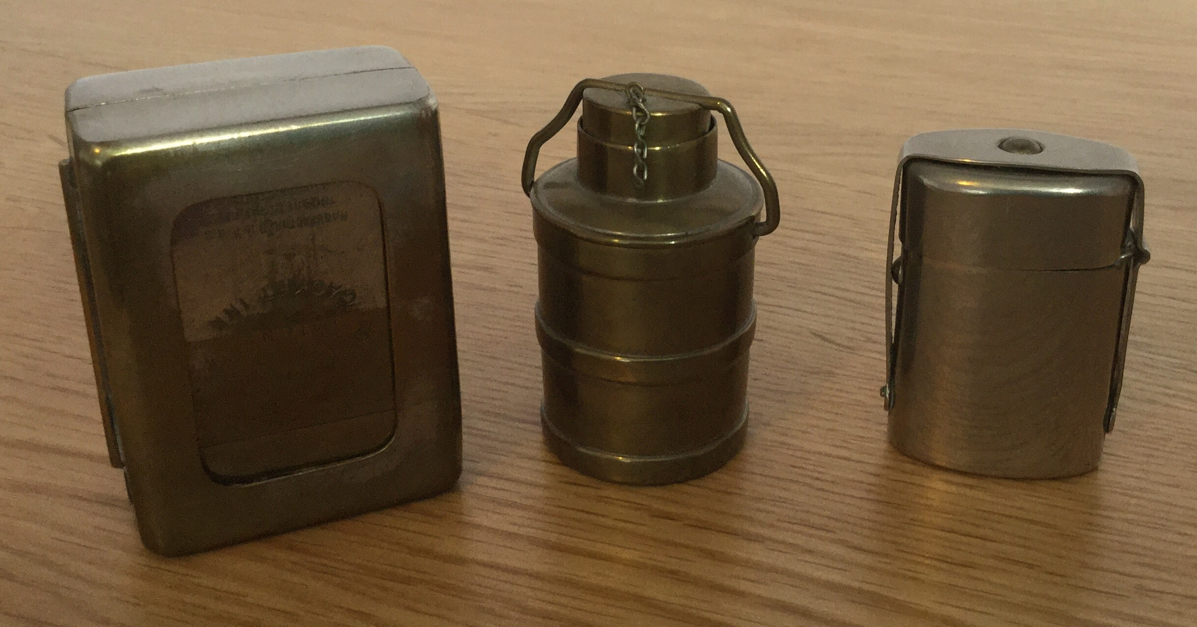 Examples of 19c Travelling Inkwells